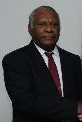 Cropped photograph of Baldwin Lonsdale meeting with the Governor-General of Australia in July 2015